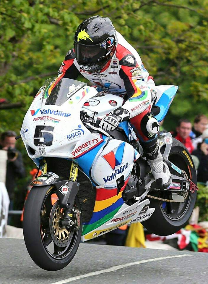 Bruce Anstey pictured at Ballaugh Bridge